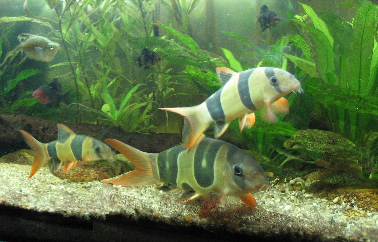 Chromobotia macracanthus syn. Botia macracanthus